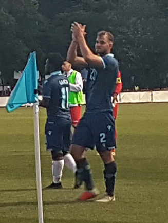 German football player Peter Schaale of the HFX Wanderers after a 2019 Canadian Championship match at Wanderers Grounds in Halifax, Nova Scotia, on 10 July 2019.